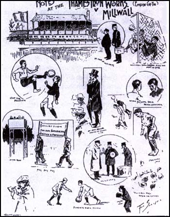 An FA Cup football programme from 1899, for a tie between Thames Ironworks and Millwall Athletic.